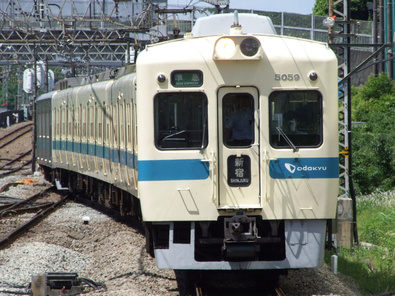 Semi Express Train-Series 5000-,OER-ODAWARA-LINE,Odakyu Electric Railway,Japan